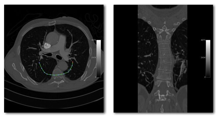 Curved MPR from a CT scan. Generated by Kieran Maher using OsiriX. marz 15:02, 26 October 2006 (UTC)